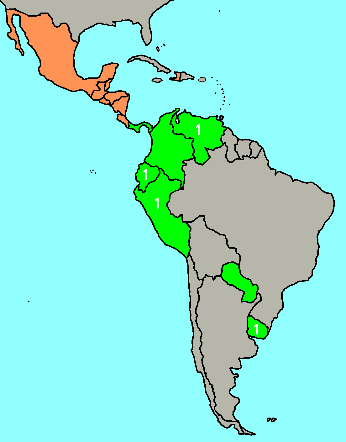 Light-green shows countries that have Apertura and Clausura tournaments during calendar year. Orange shows countries where seasons are similar with European system Autumn/Spring. Number 1 shows countries where the Apertura and Clausura are parts of a larger tournament, and the winners are not national champions.